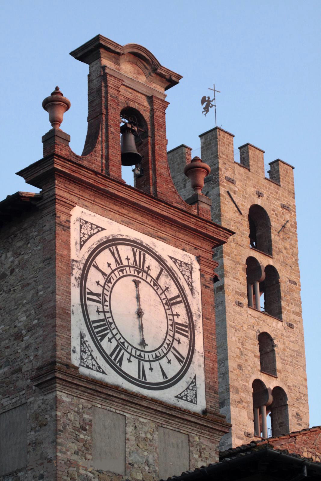 The clock of the Basilica of santa Maria in Impruneta, Italy.